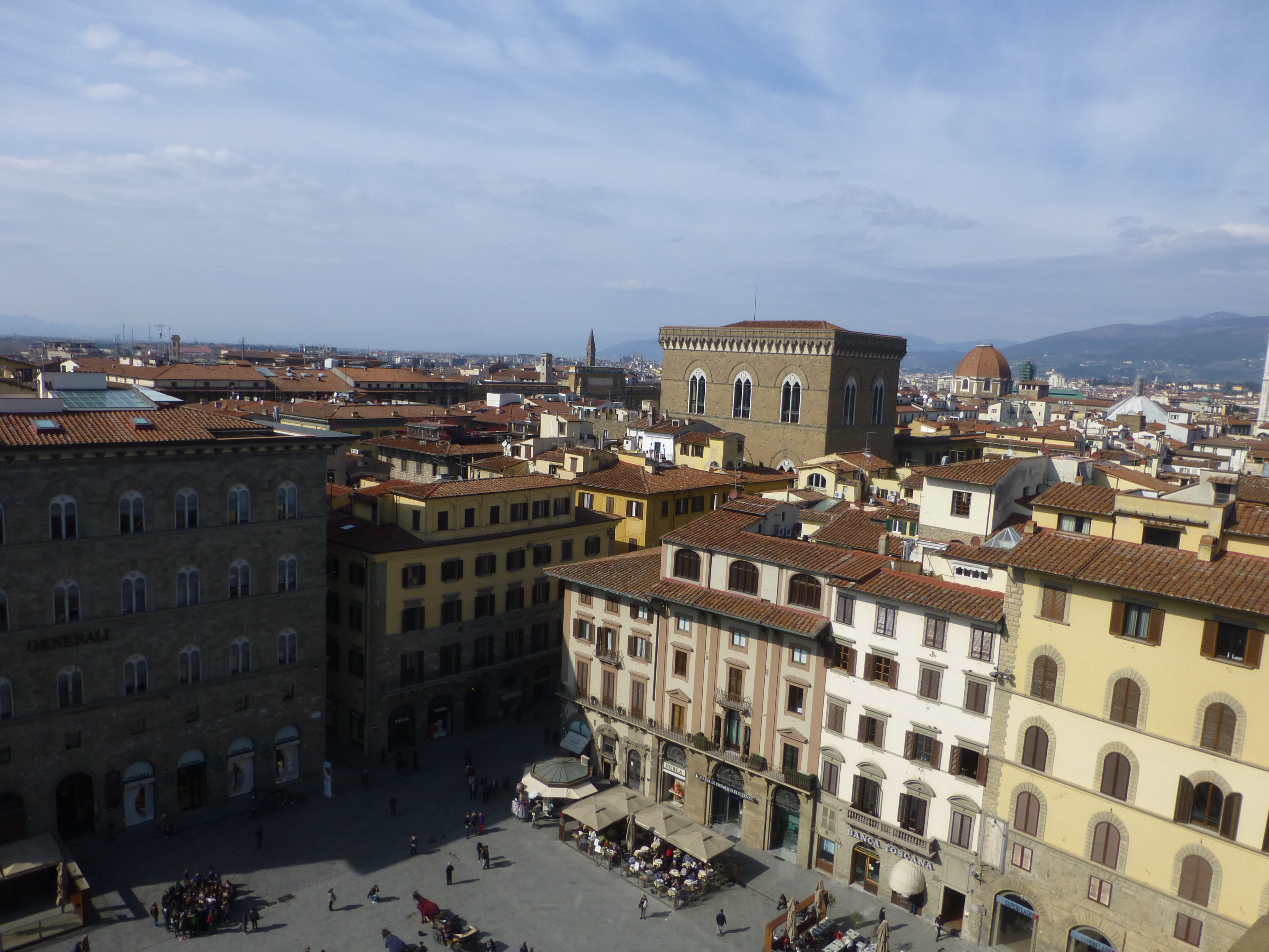 Chiesa di Orsanmichele, Firenze, Tuscany, Italy. The church is the large, block-like building in the middle which is higher than the other buildings.